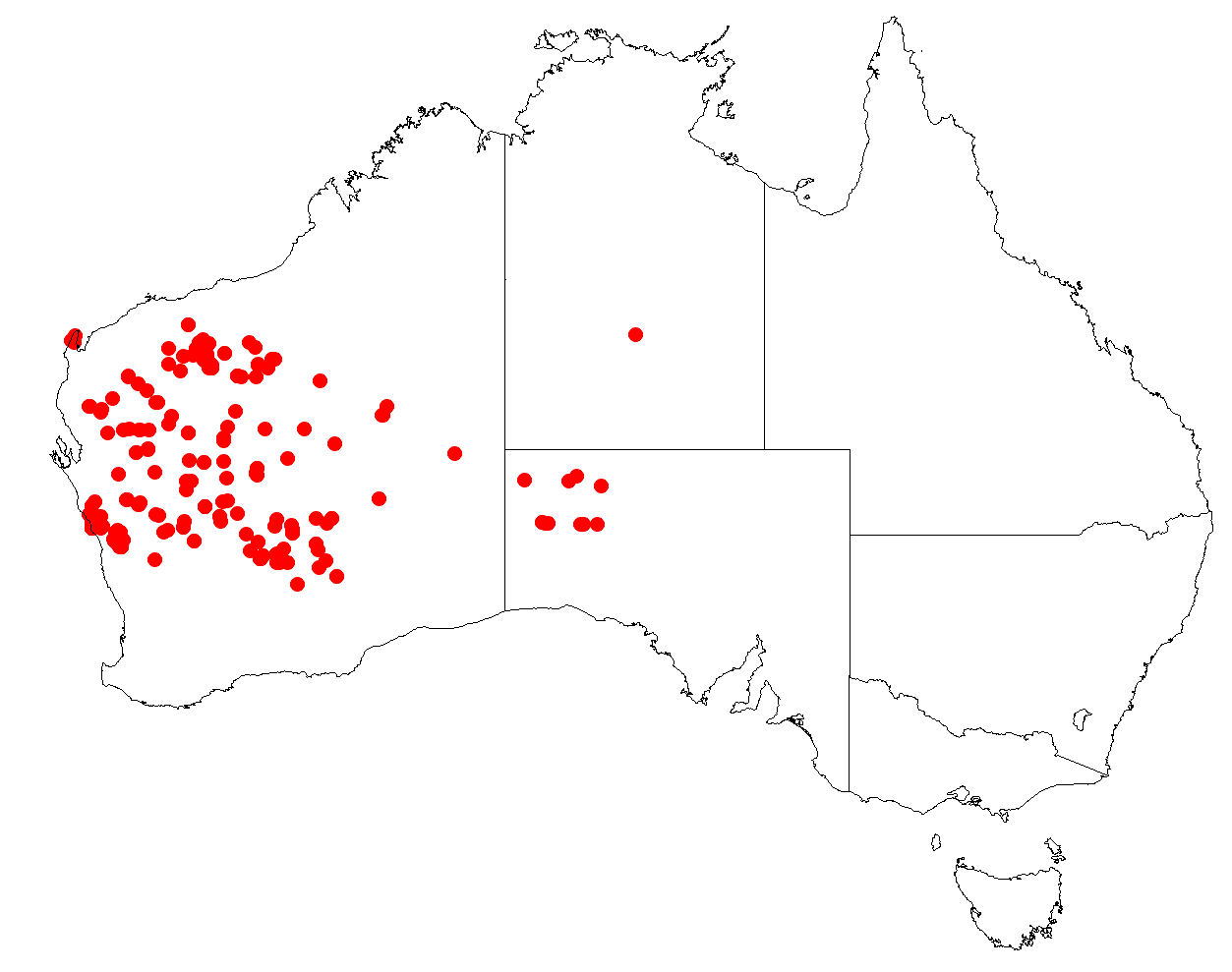 Australian distribution of Amyema fitzgeraldii based on download from Australasian Virtual Herbarium May 9, 2018